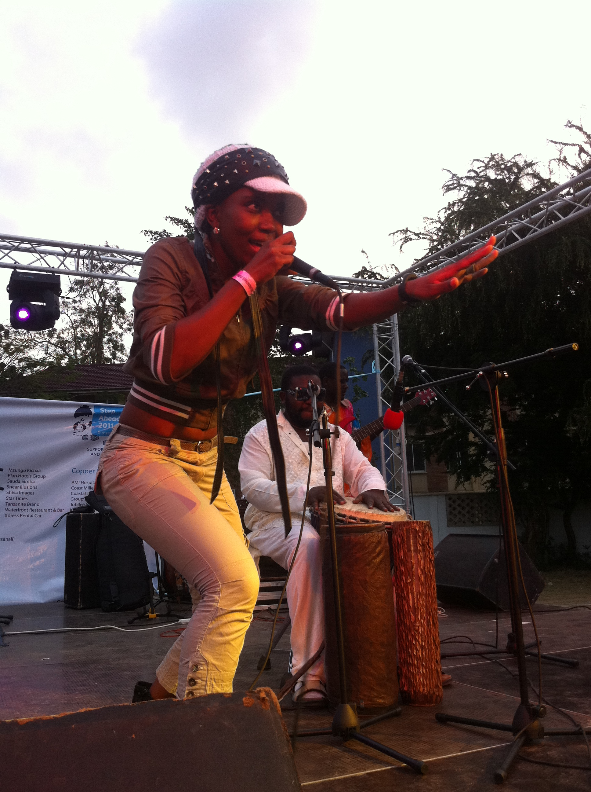 Yvonne Mwale performing an Dar es Salaam's Leaders Club 2011